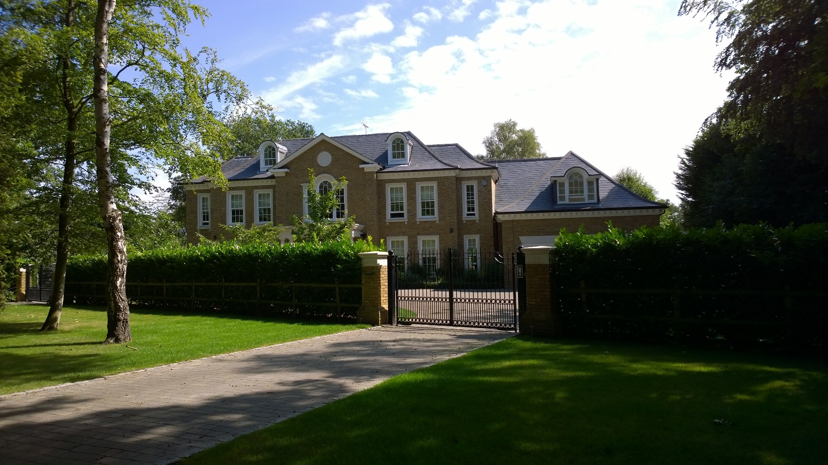 Eriswell Road Burwood Park Estate